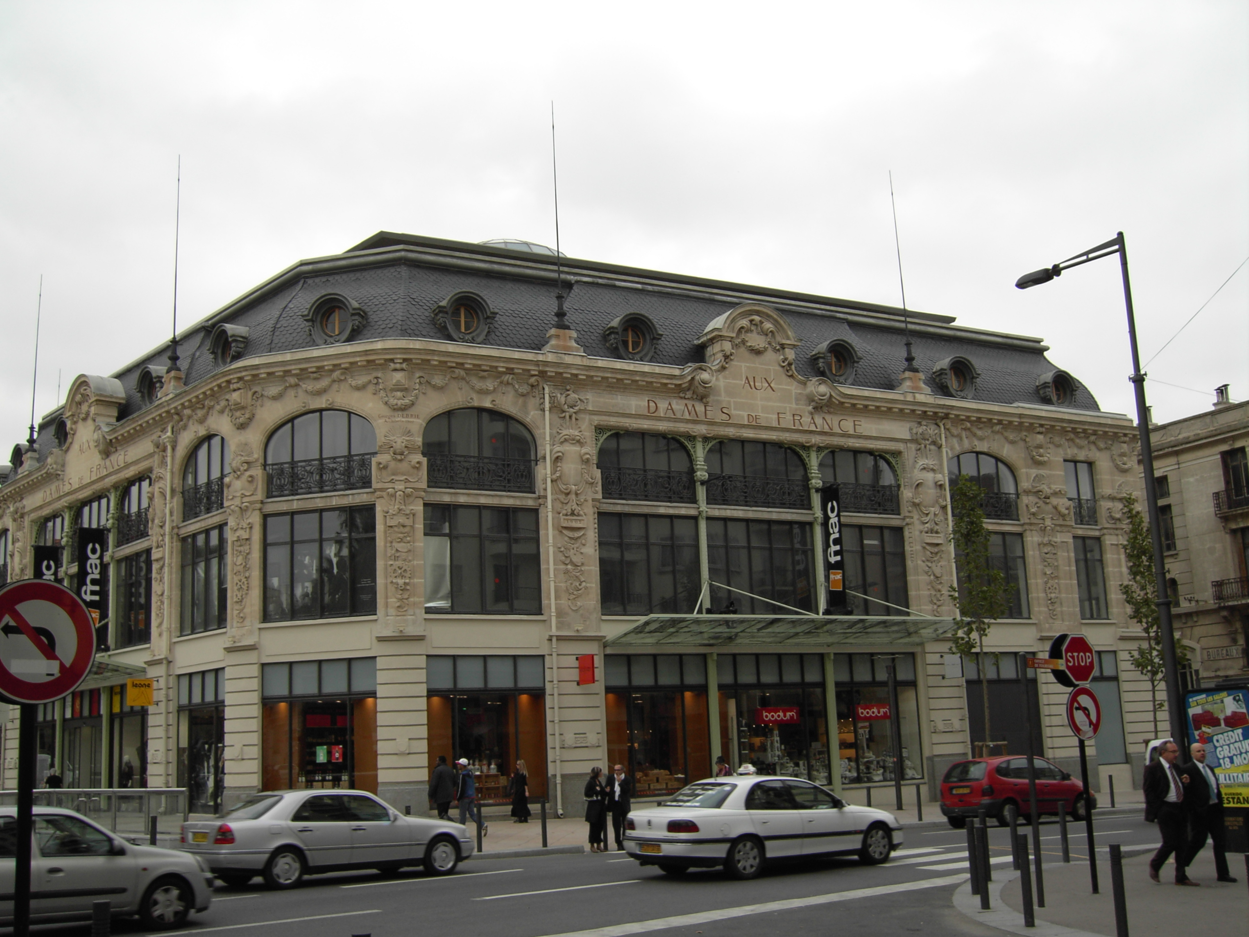 Aux Dames de France building in Perpignan (France).